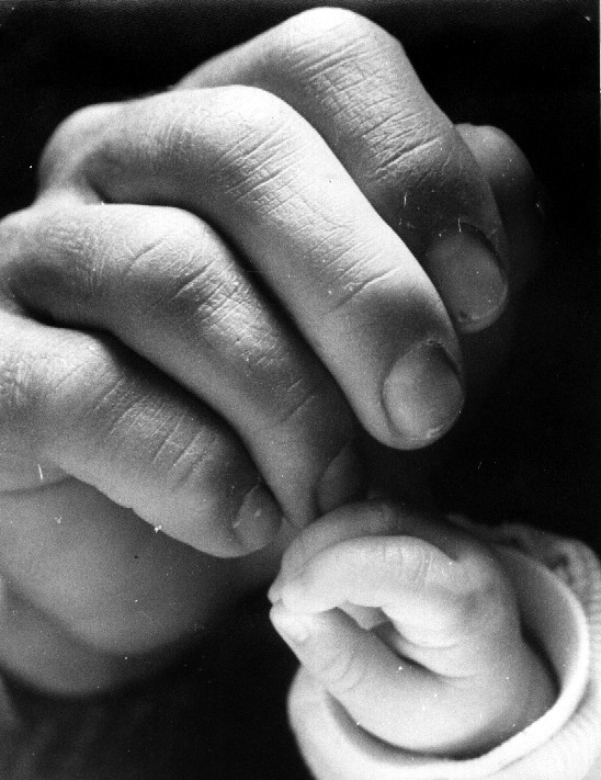 Yair Ein stranger was a member of the judge and his love for photography has added to our photo album unique quality photos.